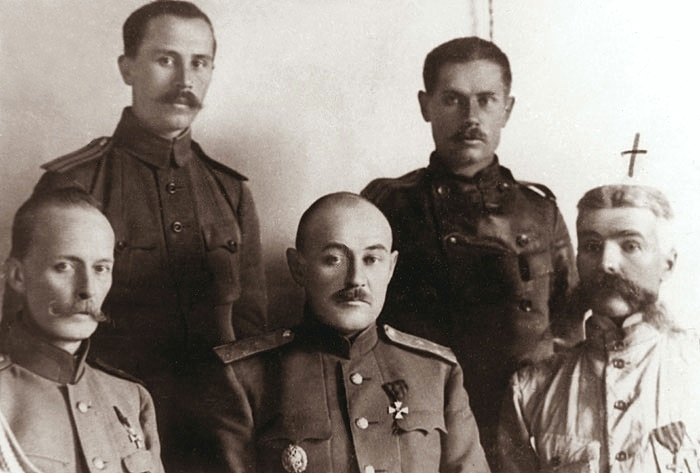 Don Army Command (second part) (February 1919). The Civil War in Russia (1917-1922). Sitting from left to right: Chief of Staff of the Don Army, Lieutenant-General Anatoly Keltchewsky, commander of the Don Army, Lieutenant-General Vladimir Sidorin, commander of the Eastern Front, and then of the 4th Don Corps, Lieutenant-General Konstantin Mamontov (The cross over Mamontov's head was drawn by the photographer after he died in February 1920). Standing from left to right: First Quartermaster-General of Staff of the Don Army Colonel Gregory Kislov, chief of Operation Department of the General Staff Colonel Vladimir Dobrynin.